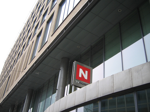 Photo of building in Oslo with TVNorge sign.